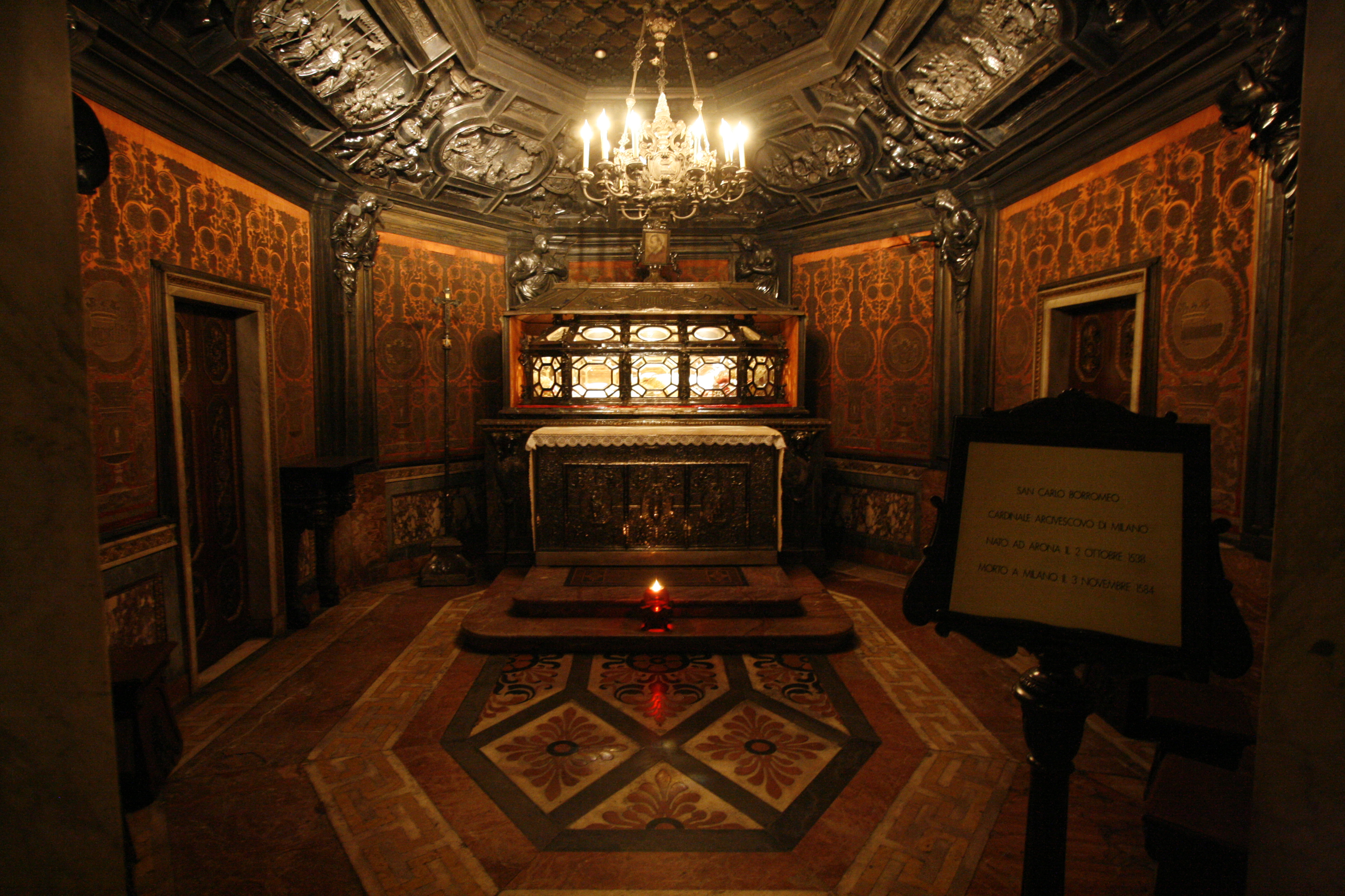 The Crypt of Saint Charles Borromeo (Carlo Borromeo), in the basement of the Milan Duomo